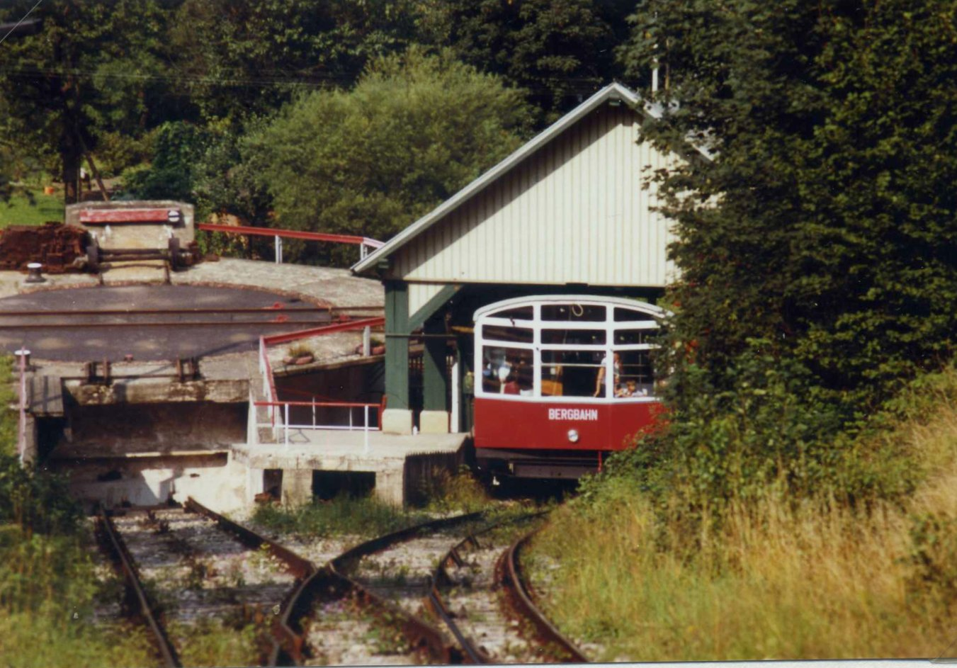 The Oberweissbacher Bergbahn, the steepest in the world, on a very wide gauge at the Talstation of Obstfelderschmiede. The turntable allowed goods wagons, to be loaded onto counter-balancing goods platforms (which also were used for extra passenger capacity at busy times) and raised to the upper electric section for onward transport to Cursdorf. This goods service had ceased long before this photo. The Talstation connected with regular DR trains along the Schwarzatal.